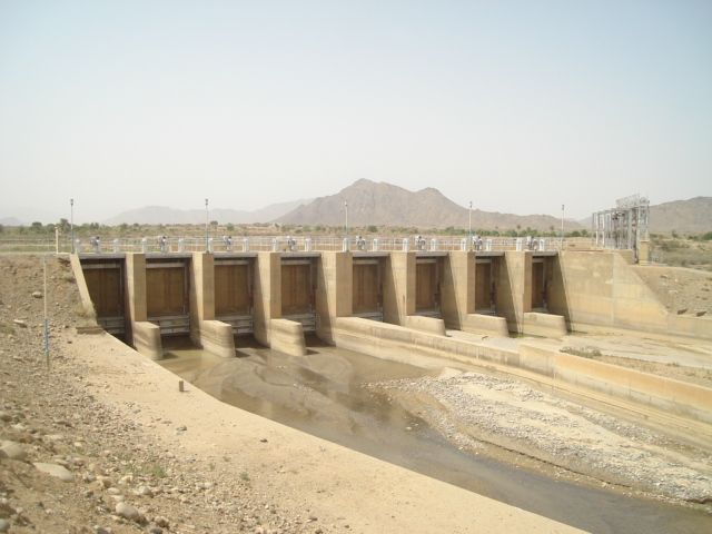 Use of Valve actuator technology in the Sahara desert